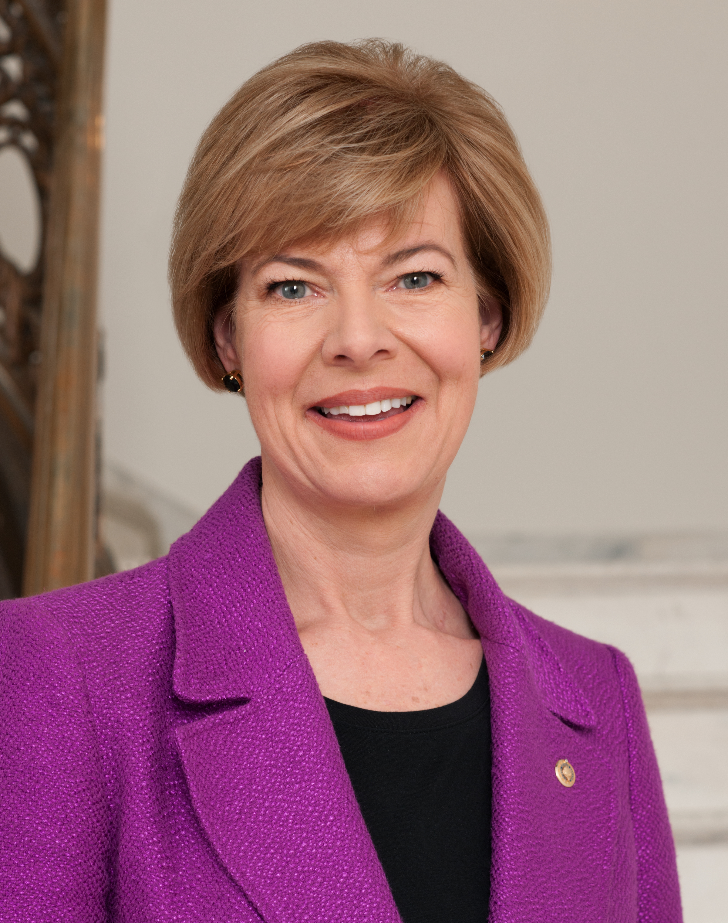 Official portrait of U.S. Senator Tammy Baldwin (D-WI).